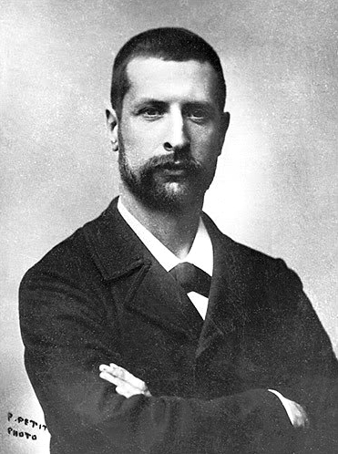 Alexandre Yersin